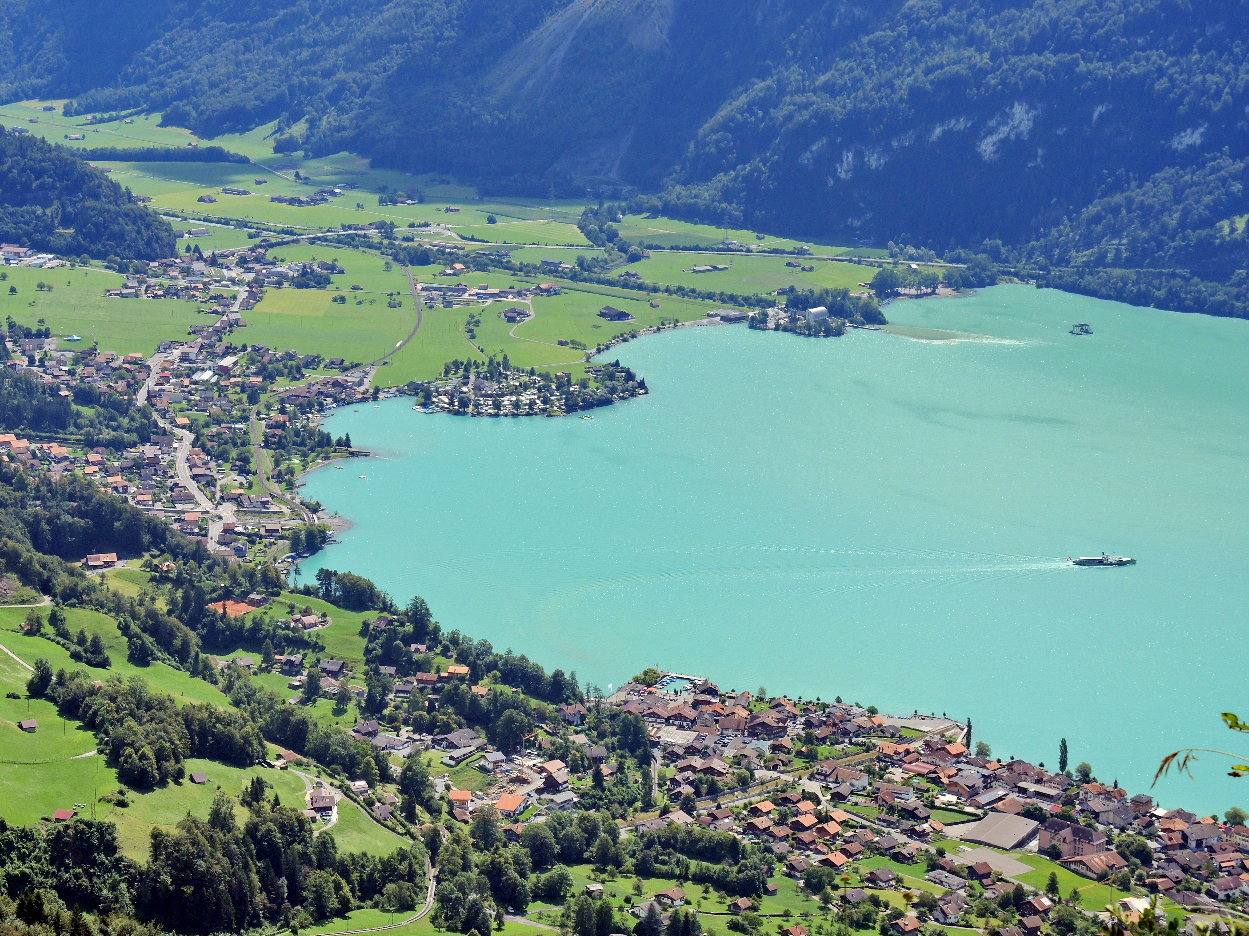 View from Brienz Rothhorn Bahn (BRB) between Brienz, Planalp and Rothorn in Switzerland